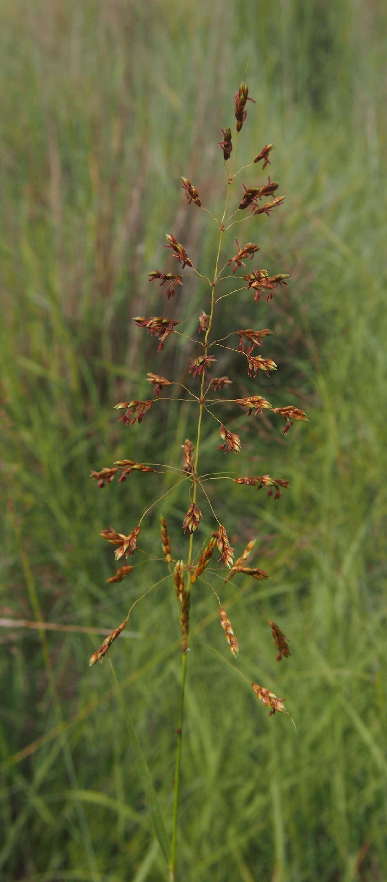 Sorghum nitidum flowerhead